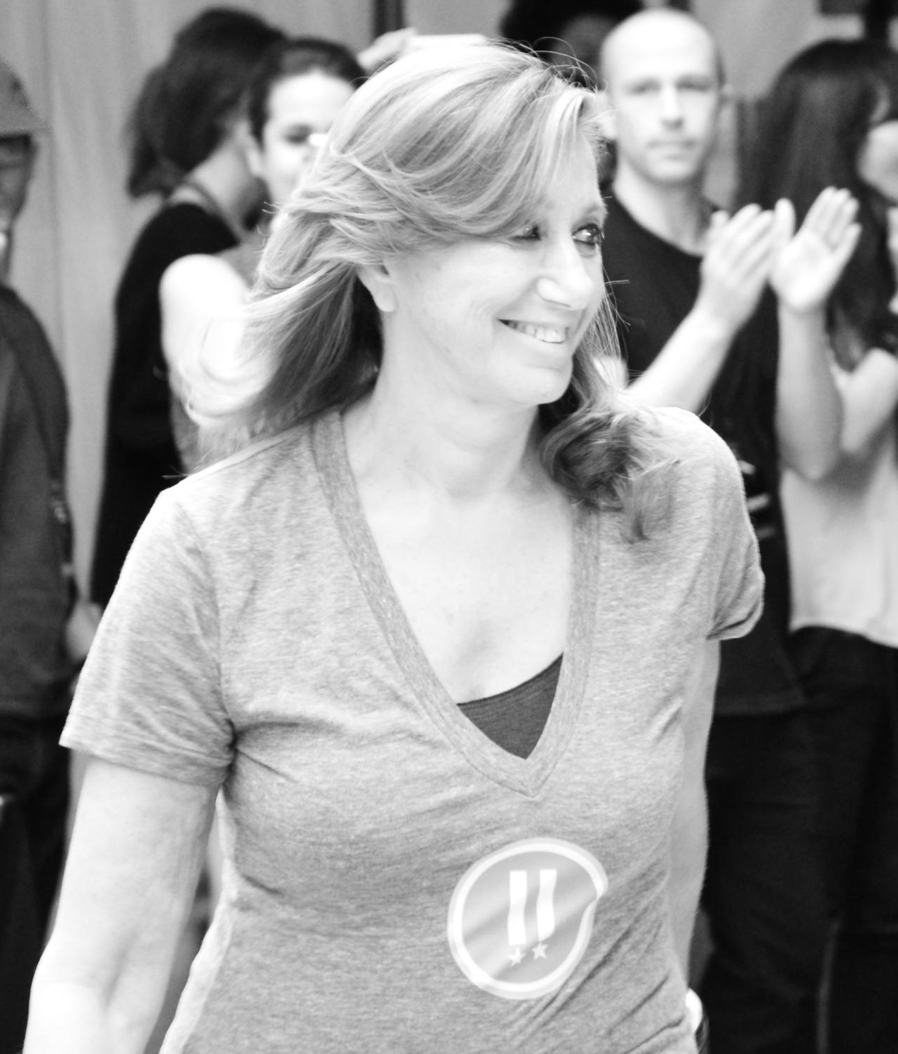 Donna Karan at the end of her Spring 2012 Fashion Week NYC show.